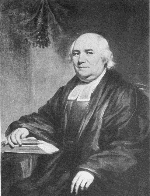 Rector of St. Mark's in-the-Bowery from 1801 to 1816.